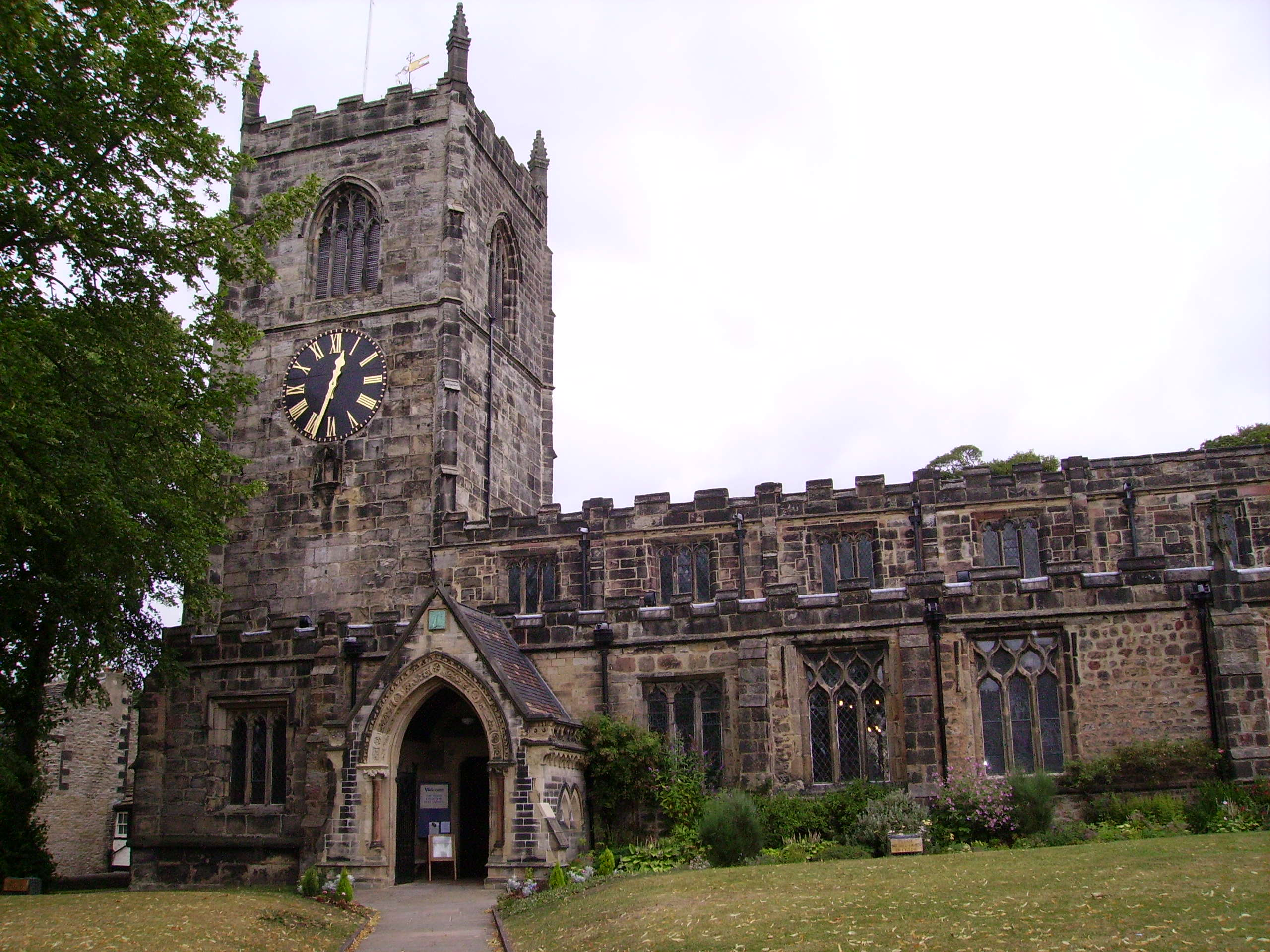 Church of Holy Trinity in Skipton in North Yorkshire, United Kingdom